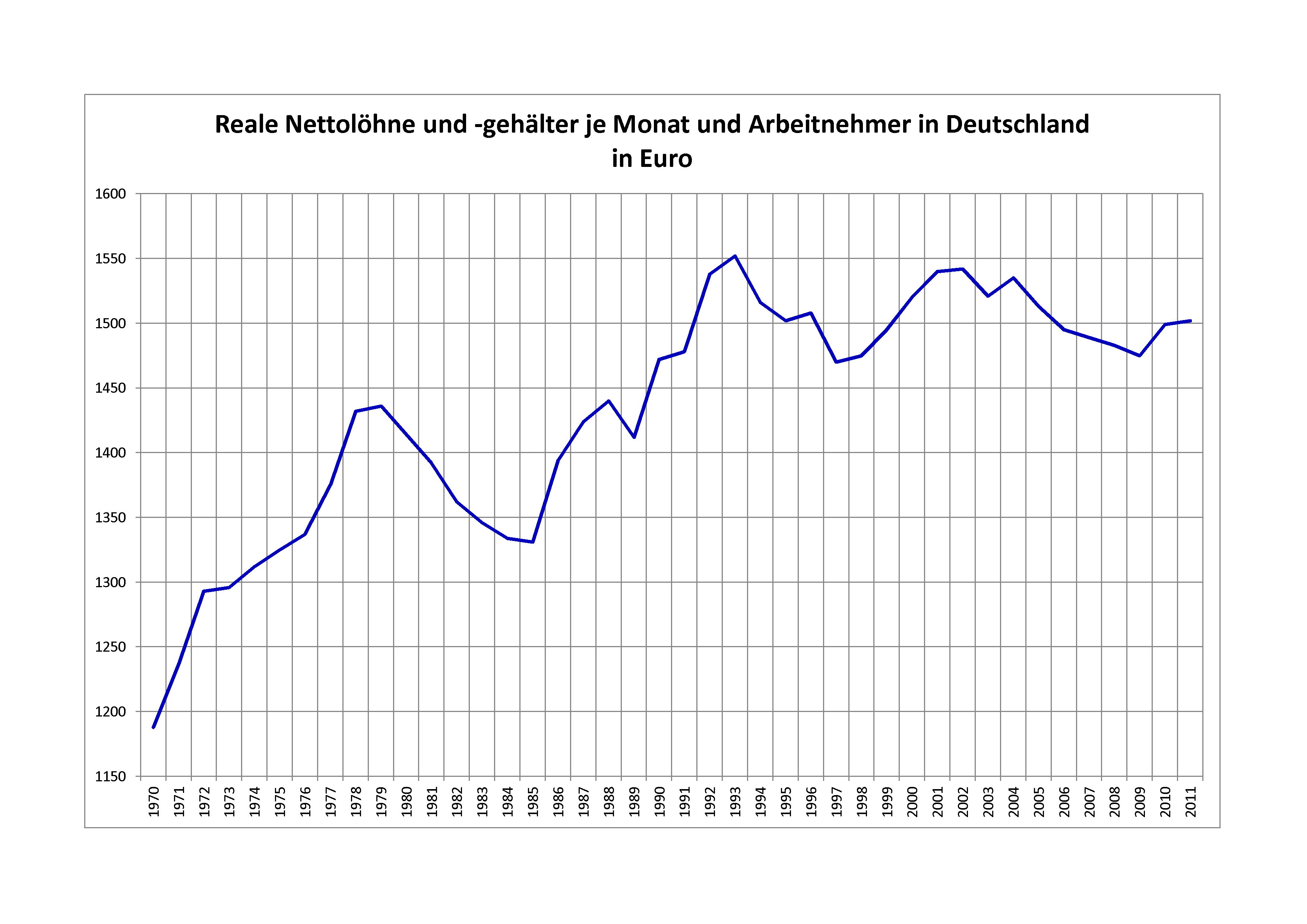 Real net wages in Germany from 1970 to 2011